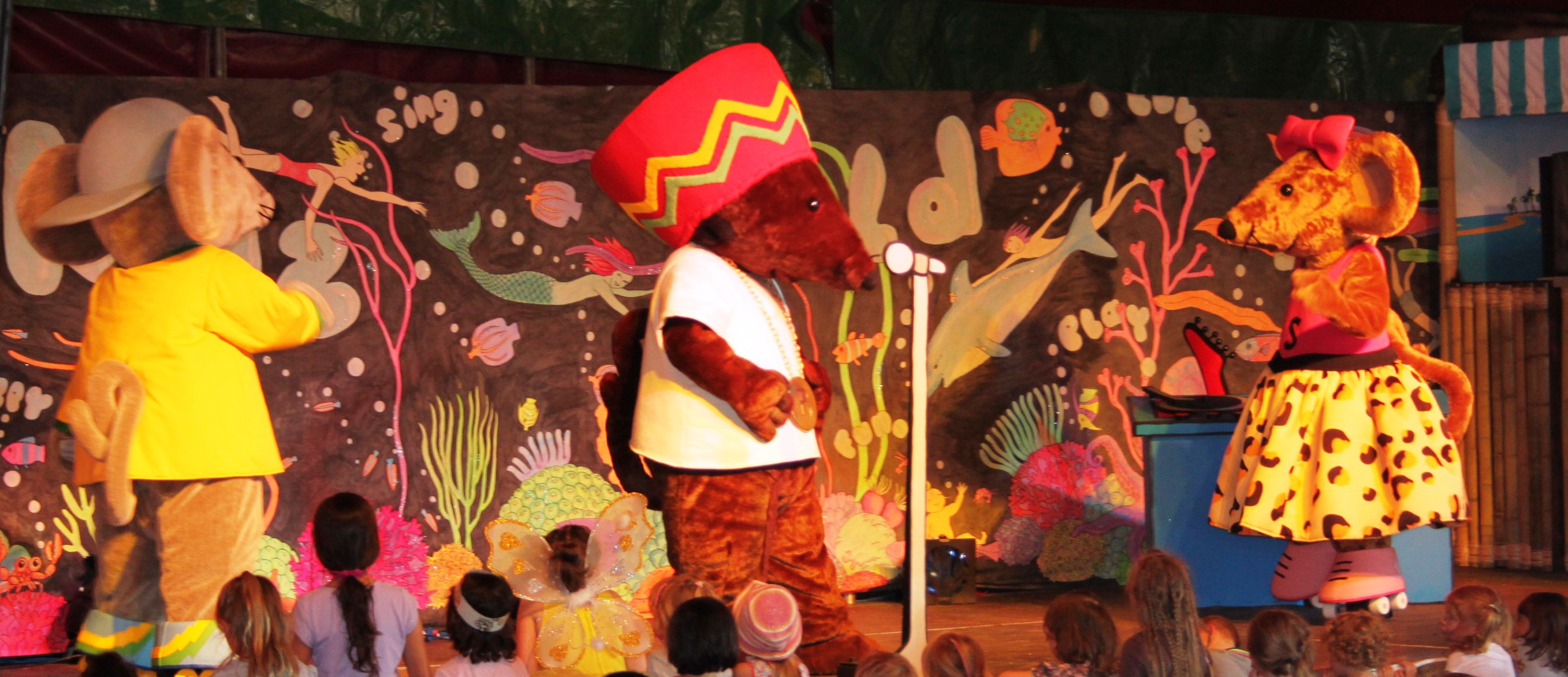 Rastamouse appearing at Glastonbury Festival